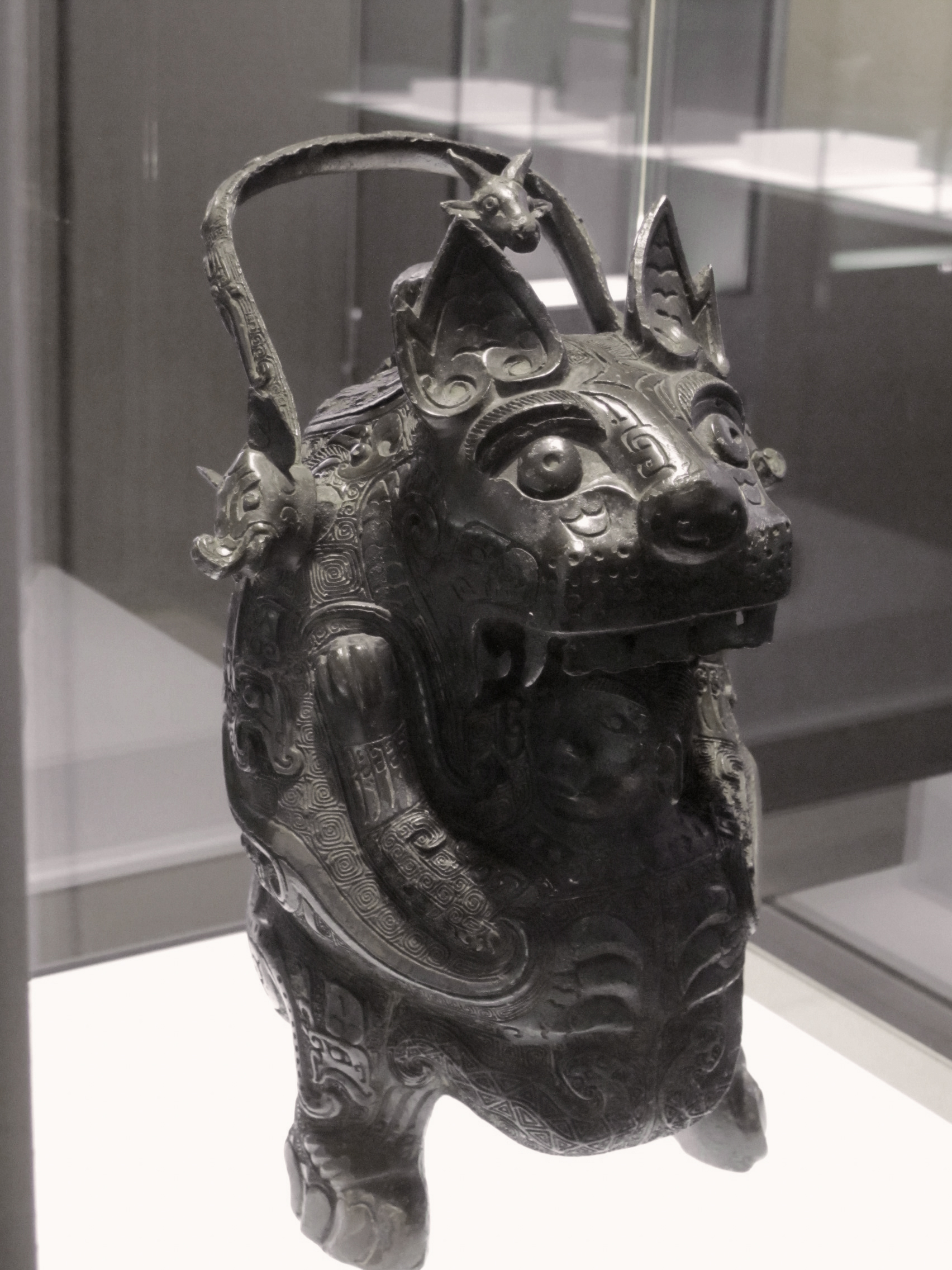 Bronze vessel to preserve drink (you) :"la Tigresse". Hunan, 11th BC : during the Shang dynasty but not in the Shang area. H max.: 35,2cm. Cernuschi Museum. Paris